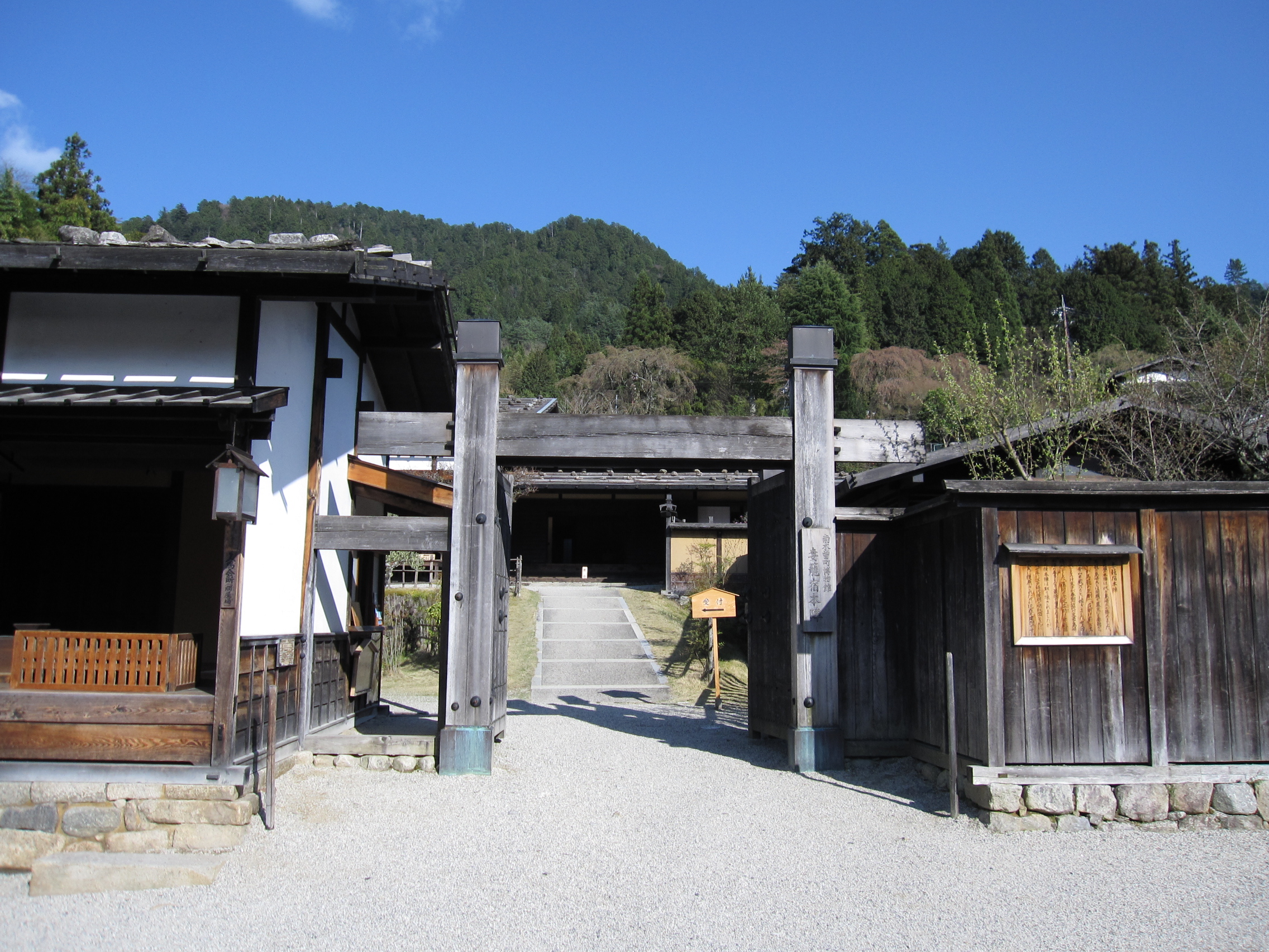 Tsumago-juku (妻籠宿) in Nagano Prefecture, central Japan, in Spring of 2009 with cherry blosoms.